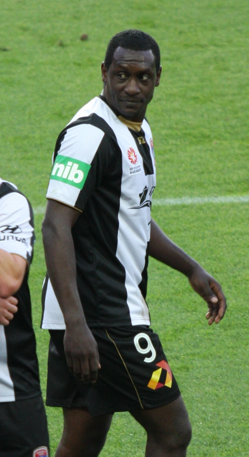 Emile Heskey playing for Newcastle Jets against Sydney FC at the Sydney Football Stadium on 13 October 2012